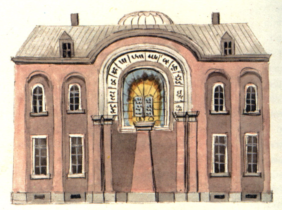 View of the synagogue in Maastricht, the Netherlands. Drawing by Philippus van Gulpen (c 1840-60)